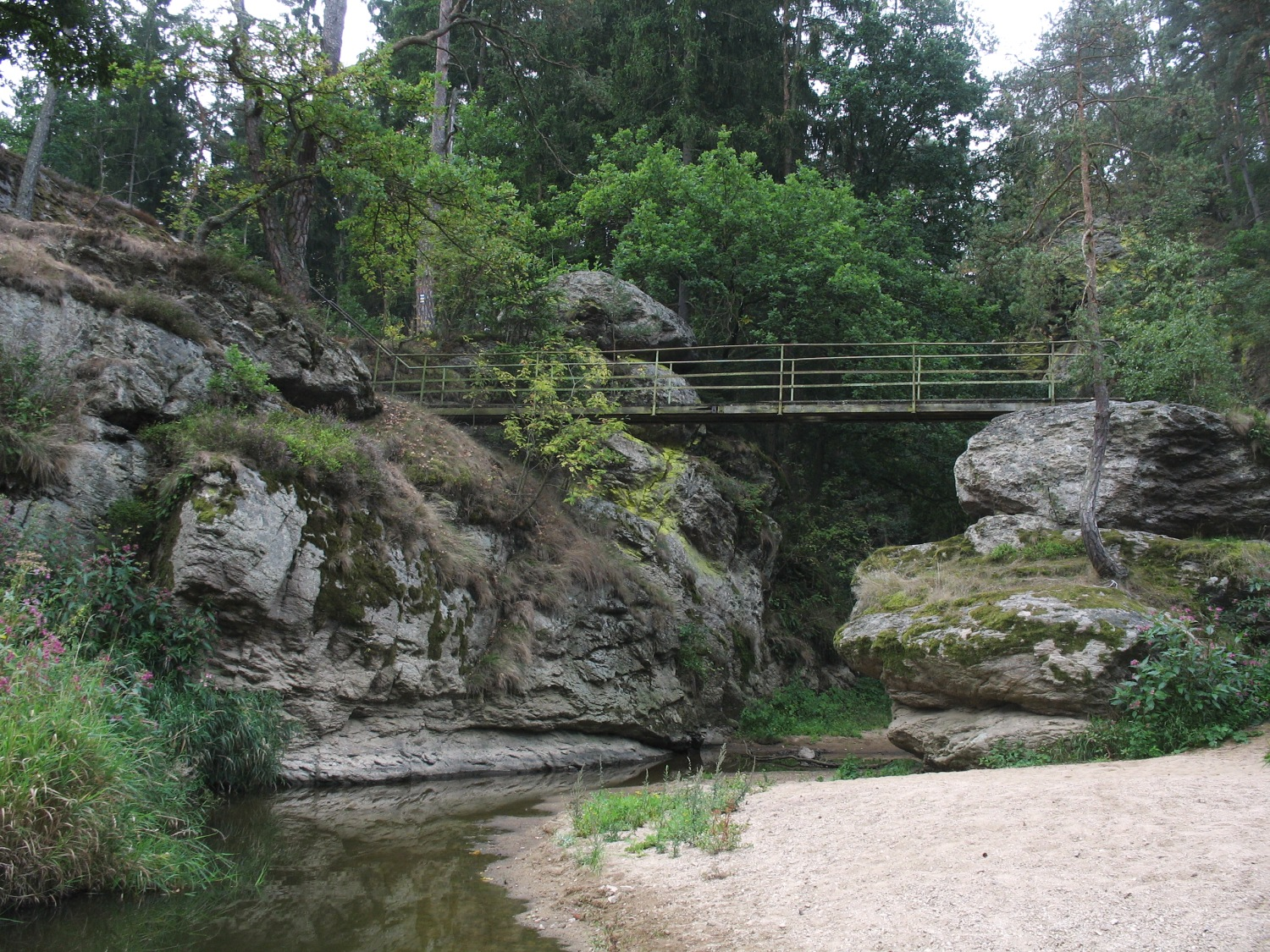 Natural monument Židova strouha in České Budějovice District and Tábor District, Czech Republic